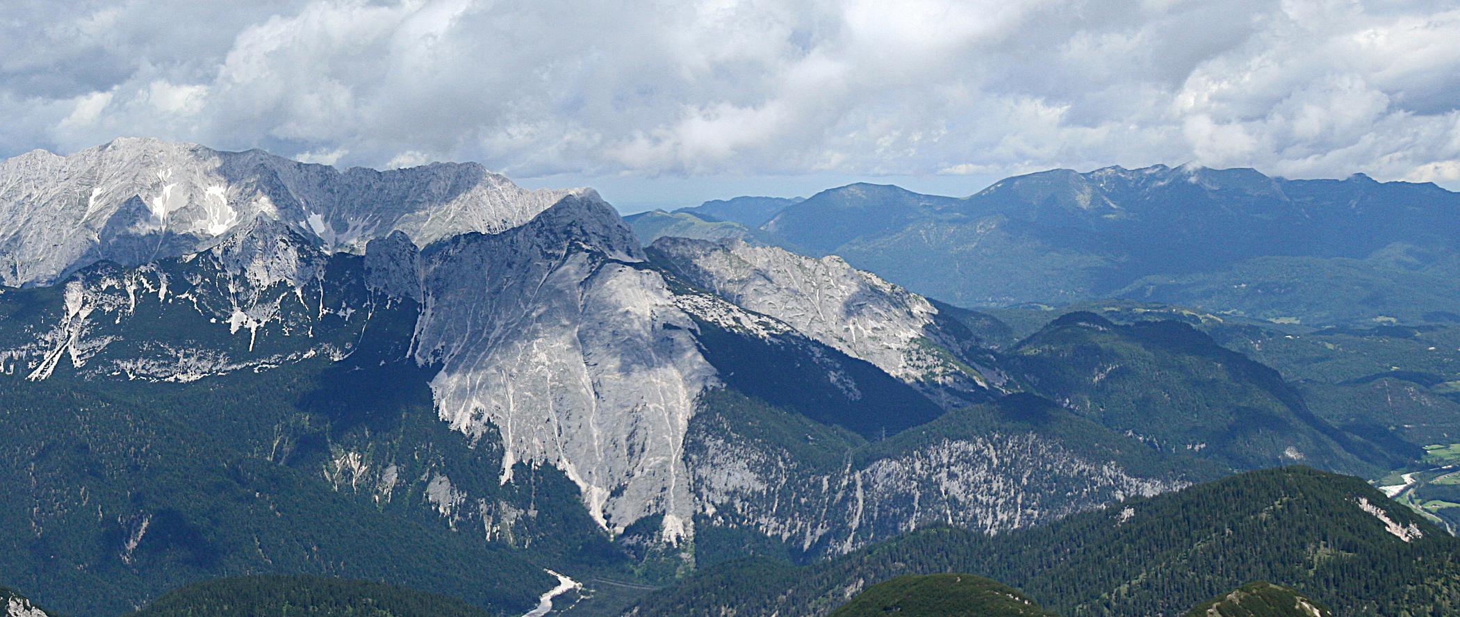 Arnspitzgroup (2196 m) seen from South (from Erlspitze).